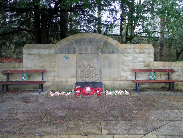 War Memorial, Saltwell Park Unveiled on 12th July 1981 by Counsellor Chris Wheatley, Mayor of Newcastle. The monument consists of a sandstone wall with two flanking walls, enclosing a small paved area. There are two wooden seats displaying the badge of the Durham Light Infantry (DLI) and three plaques to the 5th Durham Rifle Volunteers. The central panel has the date AD 1886. The left plaque has a dedication to and the badge of the DLI. "IN MEMORY OF 1419 OFFICERS AND OTHER RANKS WHO LAID DOWN THEIR LIVES IN WAR FROM 1900 TO 1945. EACH A SON OF THE 9TH BATTALION THE DURHAM LIGHT INFANTRY T.A. FAITHFUL". The right plaque reads "THESE STONES WERE RECOVERED FROM THE DRILL HALL IN BURT TERRACE HOME OF THE 9TH BATTALION THE DURHAM LIGHT INFANTRY T.A. DEDICATED AD JULY 1981". The stones were taken from an arch above a window in the north gable of the drill hall. The memorial replaces one in St. Mary's Church which was destroyed by fire in 1979